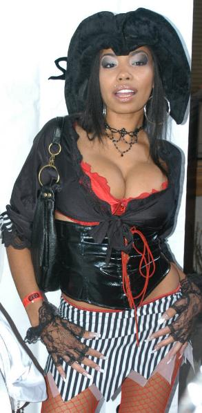 Oct 28 2006: Smash Pictures/All Media Play Halloween Party.